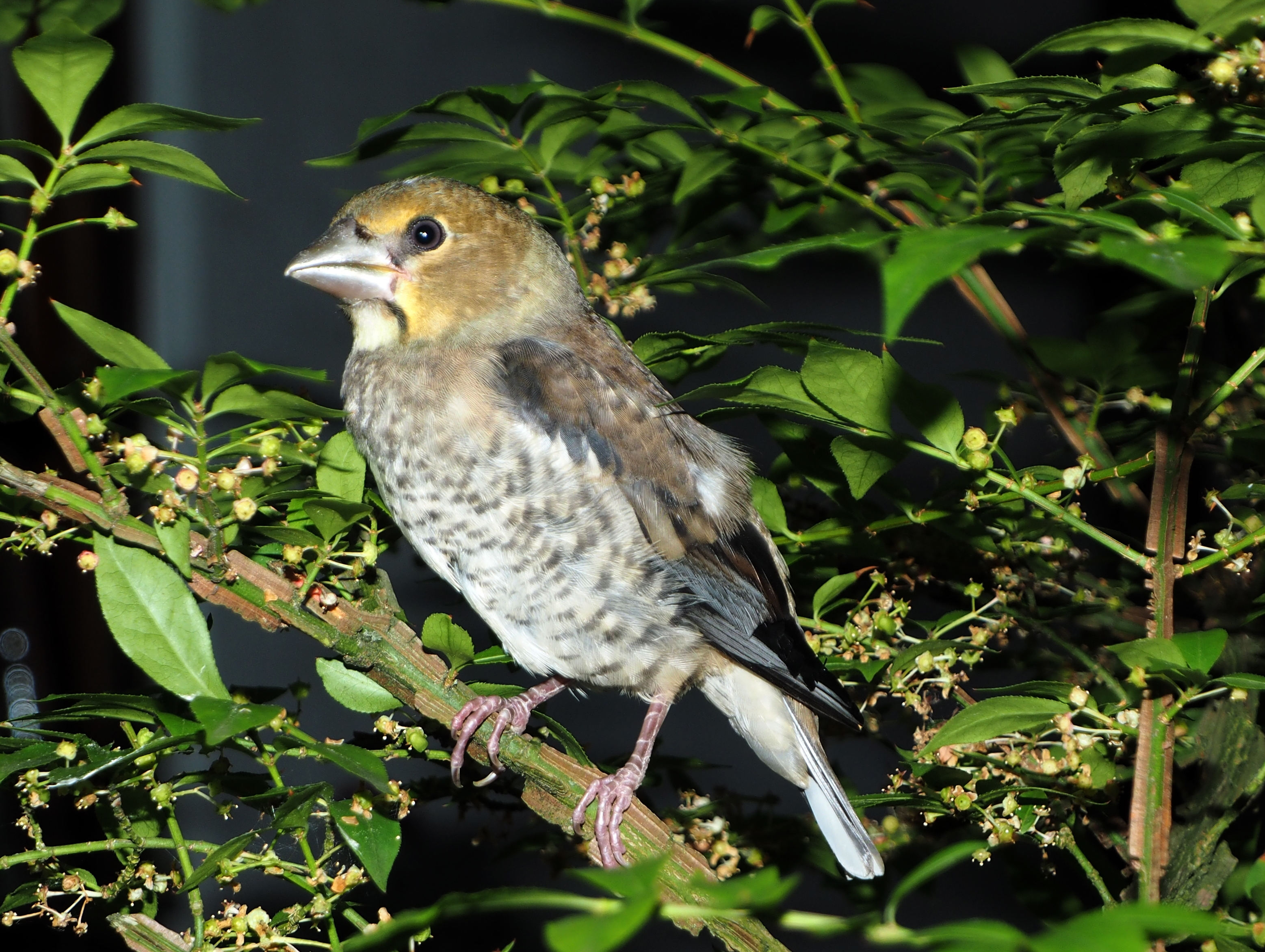 Hawfinch (Coccothraustes coccothraustes) juvenile